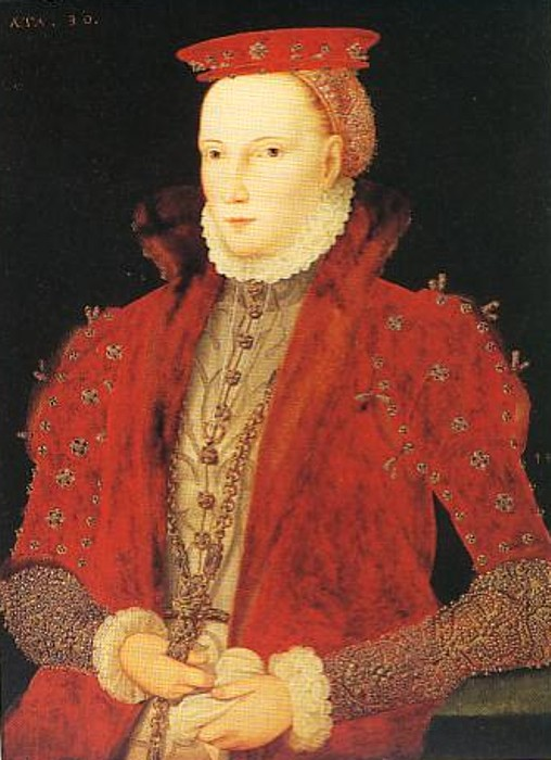 The Gripsholm Portrait, thought to be Elizabeth I of England